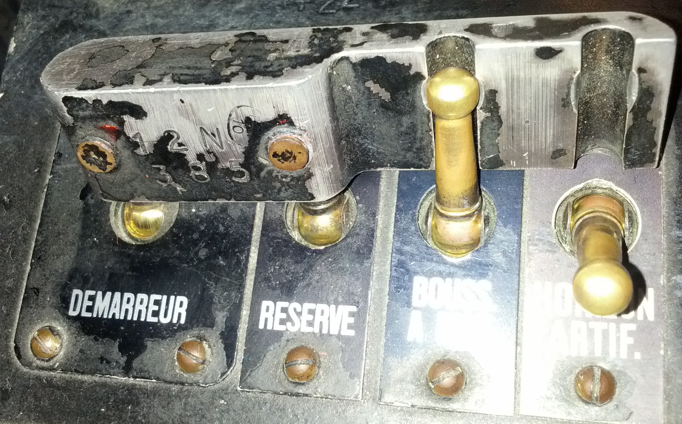 Toggle switches coupled to fulfill some contract.